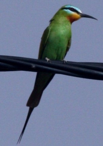 Blue cheeked bee-eater